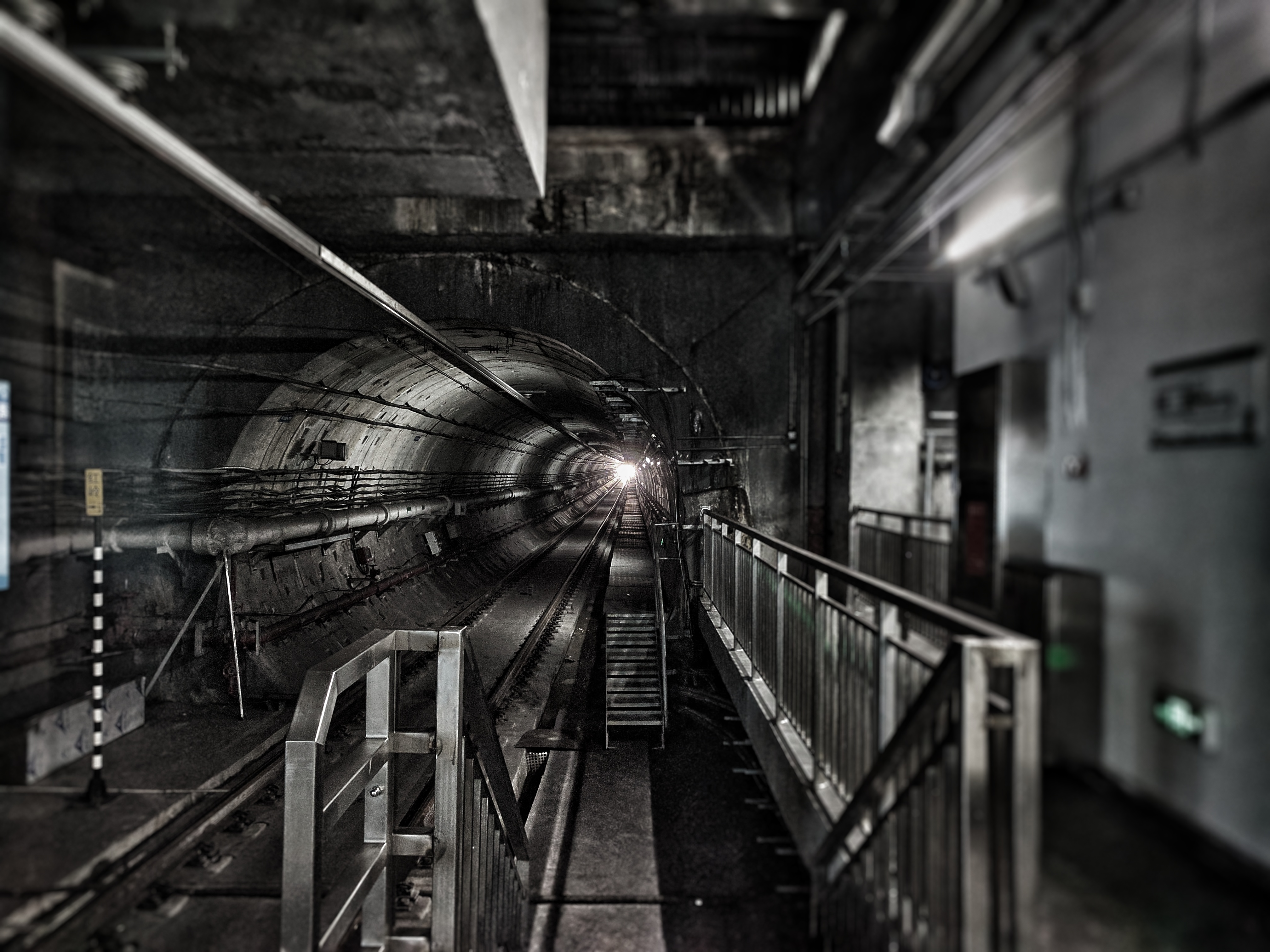 Metro Tunnel In TongXinLing Station